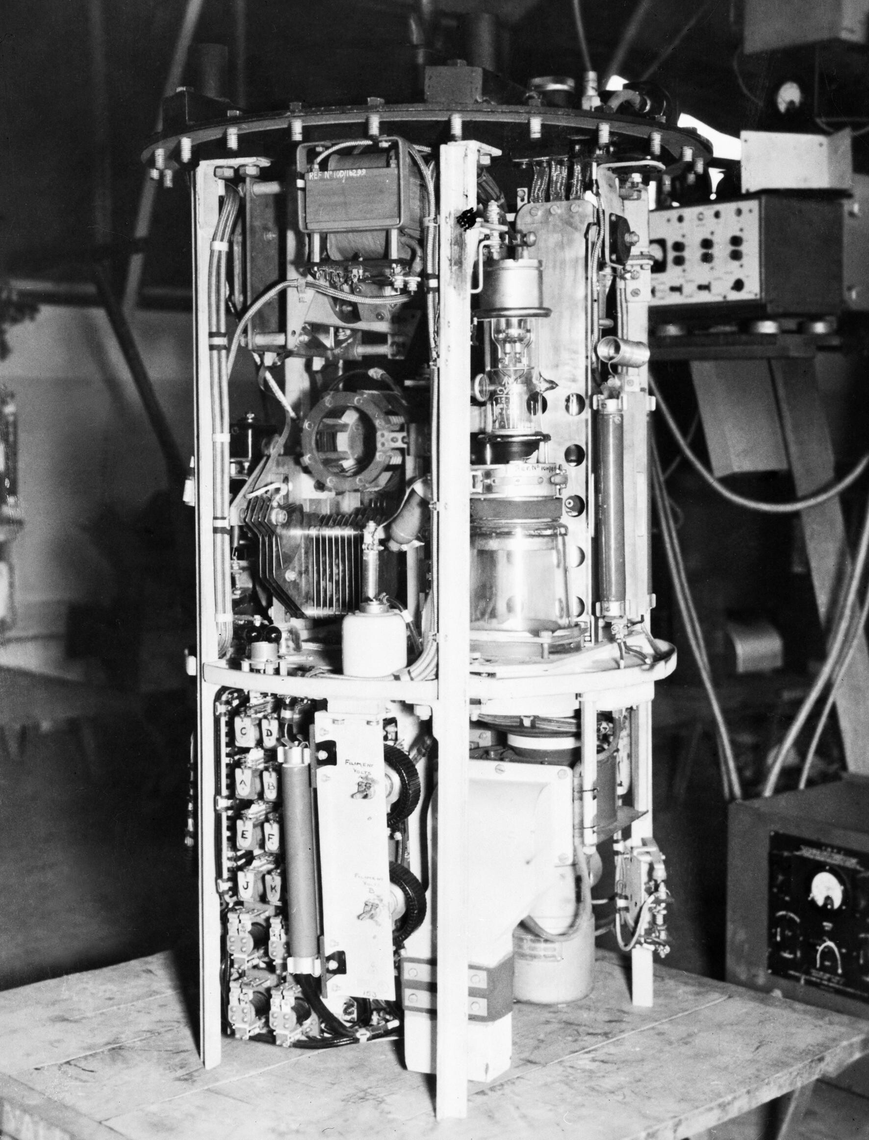 Royal Air Force Radio-counter-measures, 1939-1945. 'Jostle' transmitter with its pressurised casing removed. This was an airborne jamming device, carried by aircraft of Bomber Command and designed to to disrupt enemy radio telephony transmissions.